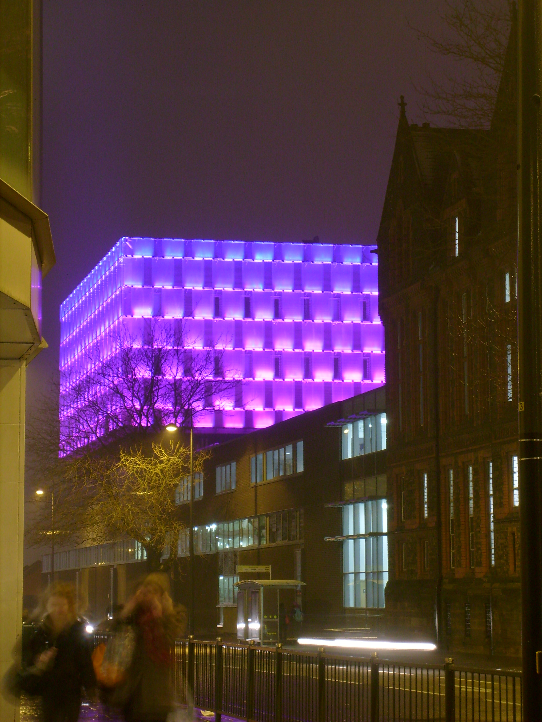 The University of Liverpool's Active Learning Lab on Brownlow Hill various different colours